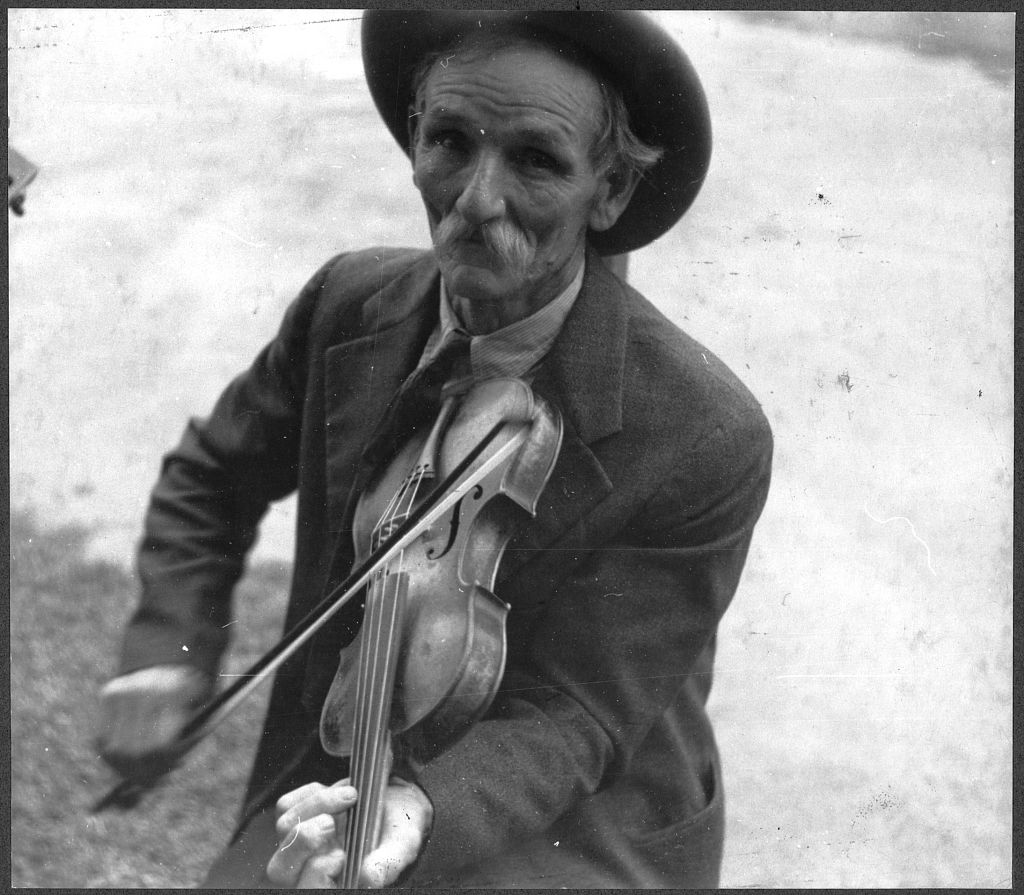 Shahn, Ben, 1898-1969, photographer. Fiddlin' Bill Hensley, mountain fiddler, Asheville, North Carolina 1937. 1 negative : nitrate ; 35 mm. Notes: Title and other information from caption card, where name appears as Bill Henseley. Digital file made from the original print, not the original negative. Original print cropped and shows only Fiddlin' Bill. Transfer; United States. Office of War Information. Overseas Picture Division. Washington Division; 1944. Subjects: Music festivals--North Carolina United States--North Carolina--Asheville. Format: Nitrate negatives. Repository: Library of Congress, Prints and Photographs Division, Washington, DC 20540 USA, Part Of: Farm Security Administration - Office of War Information Photograph Collection (Library of Congress) More information about the FSA/OWI Collection is available at Persistent URL: Call Number: LC-USF33- 006258-M3